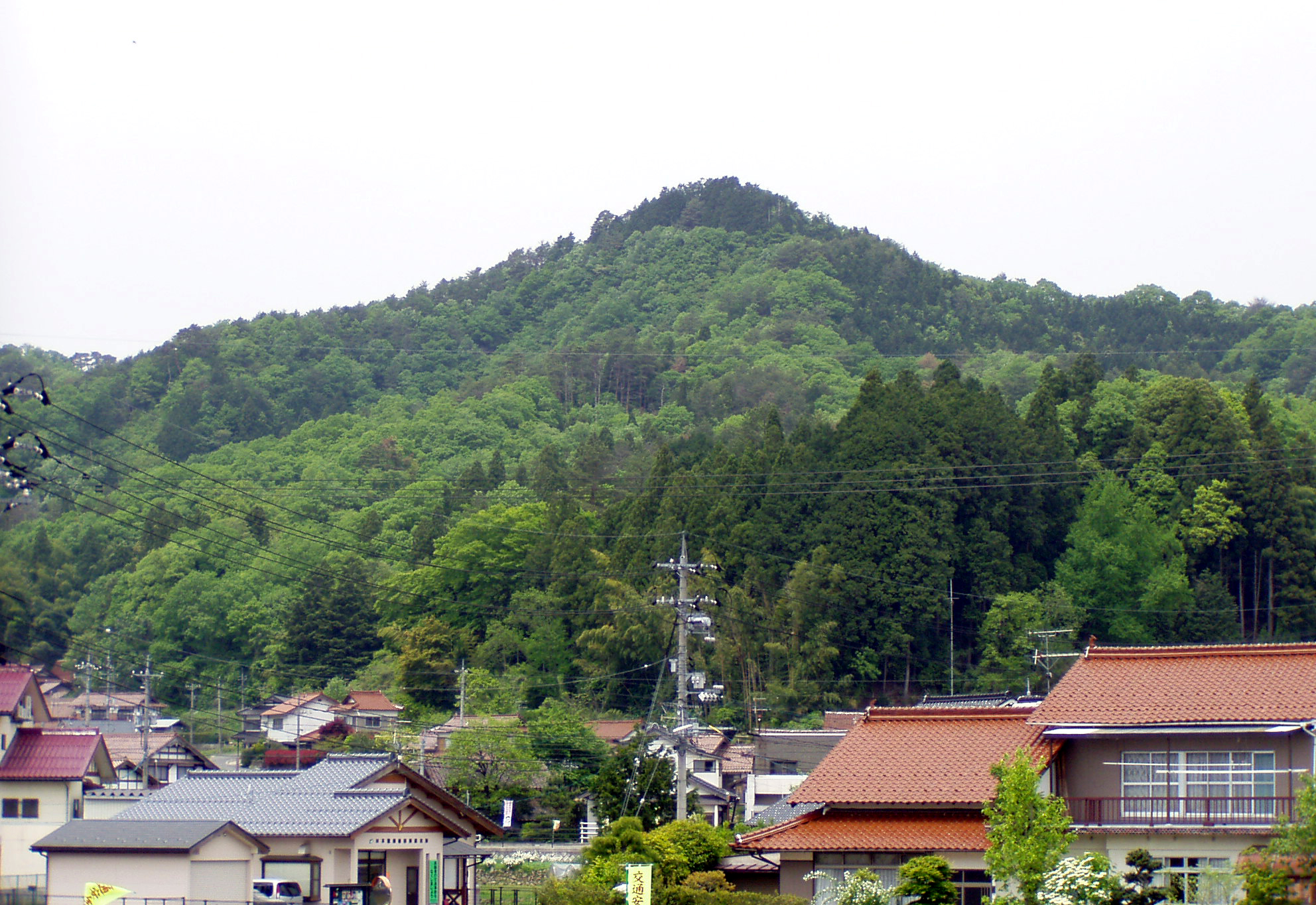 hon castle